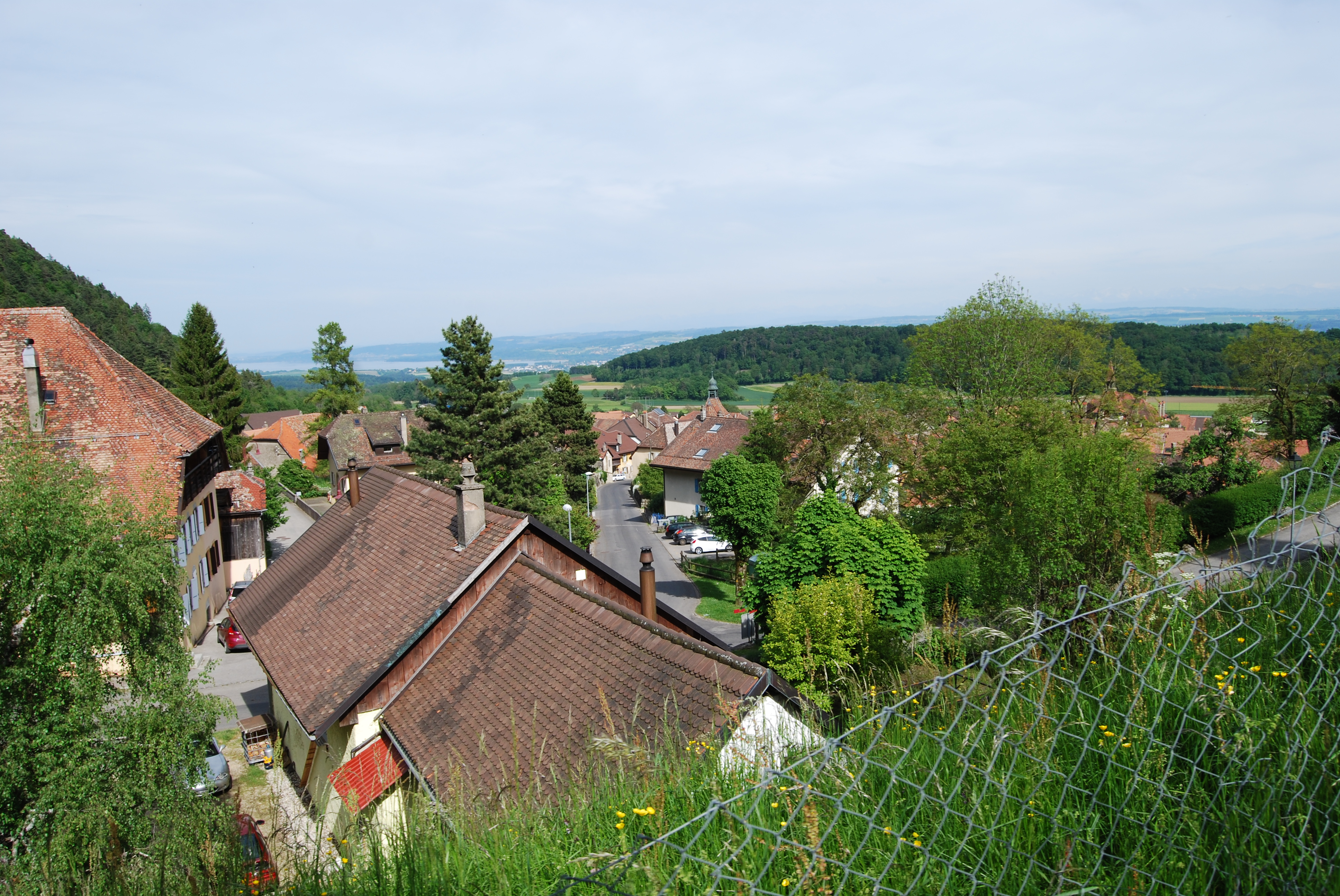 Baulmes, canton of Vaud, SwitzerlandEsperanto: Baulmes, Kantono Vaŭdo, Svislando